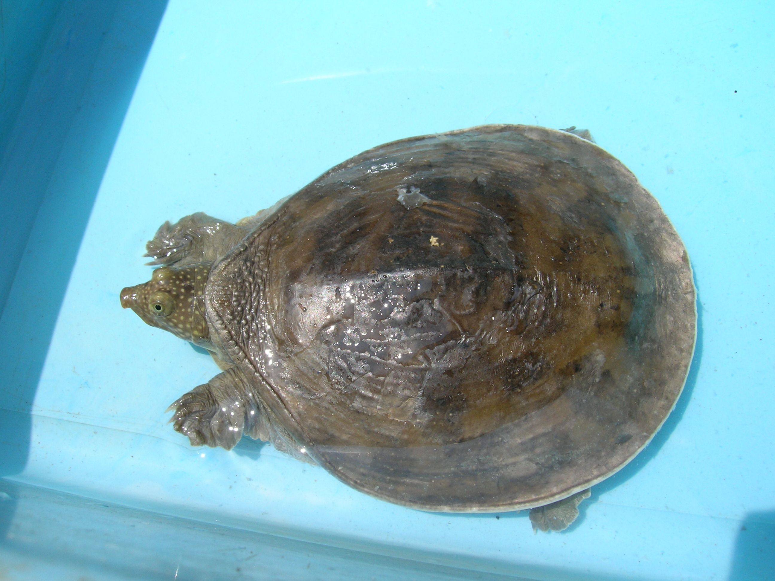 Photo credit to Peter Paul VanDijk The United States and eight African nations have submitted a proposal to include six species of African and Middle Eastern softshell turtles in Appendix II of CITES.